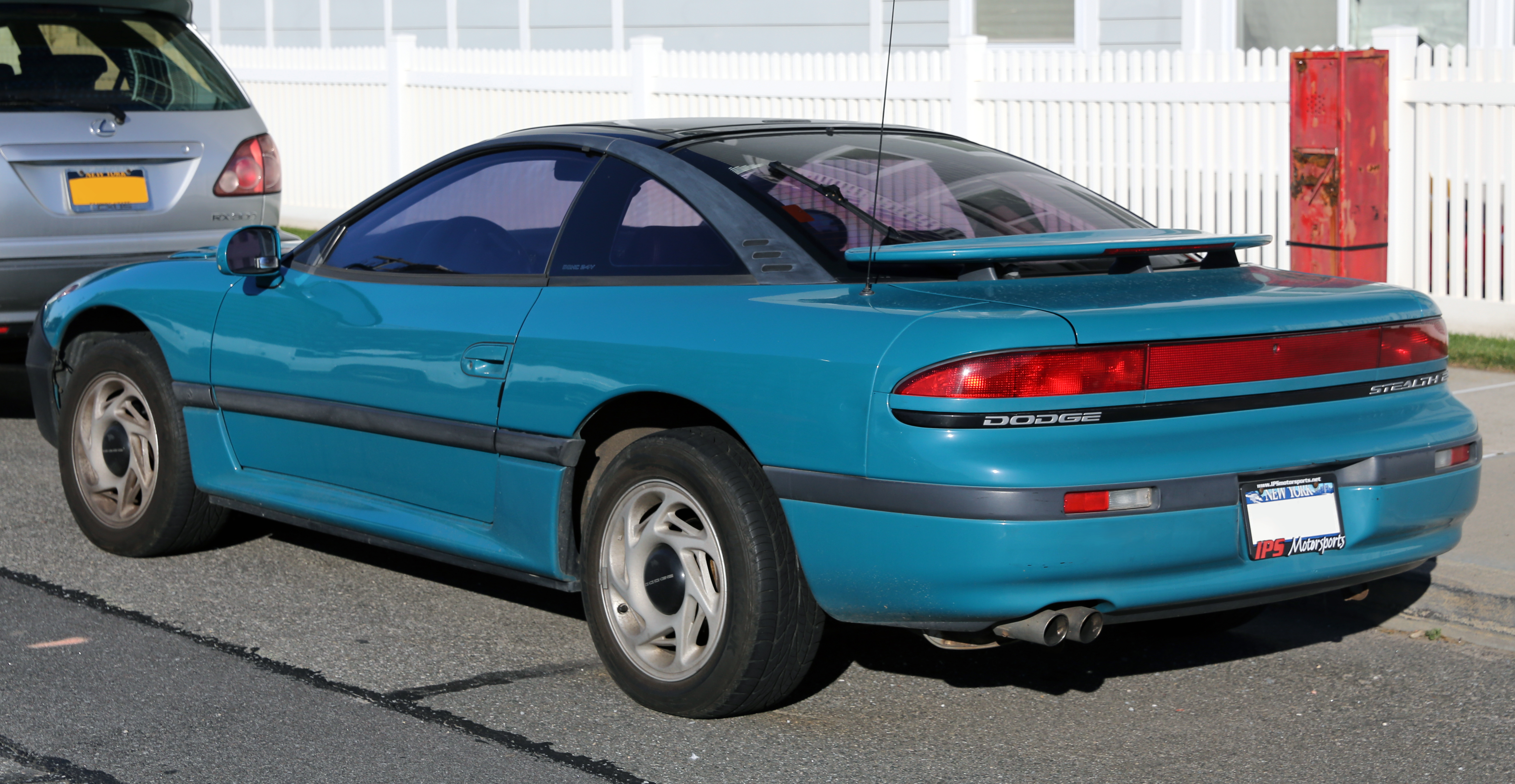 Rear view of a 1993 Dodge Stealth ES, 24V DOHC naturally aspirated V6.